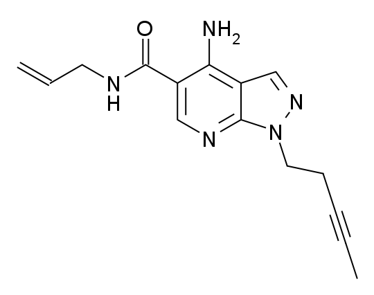 i drew this anyone can use it